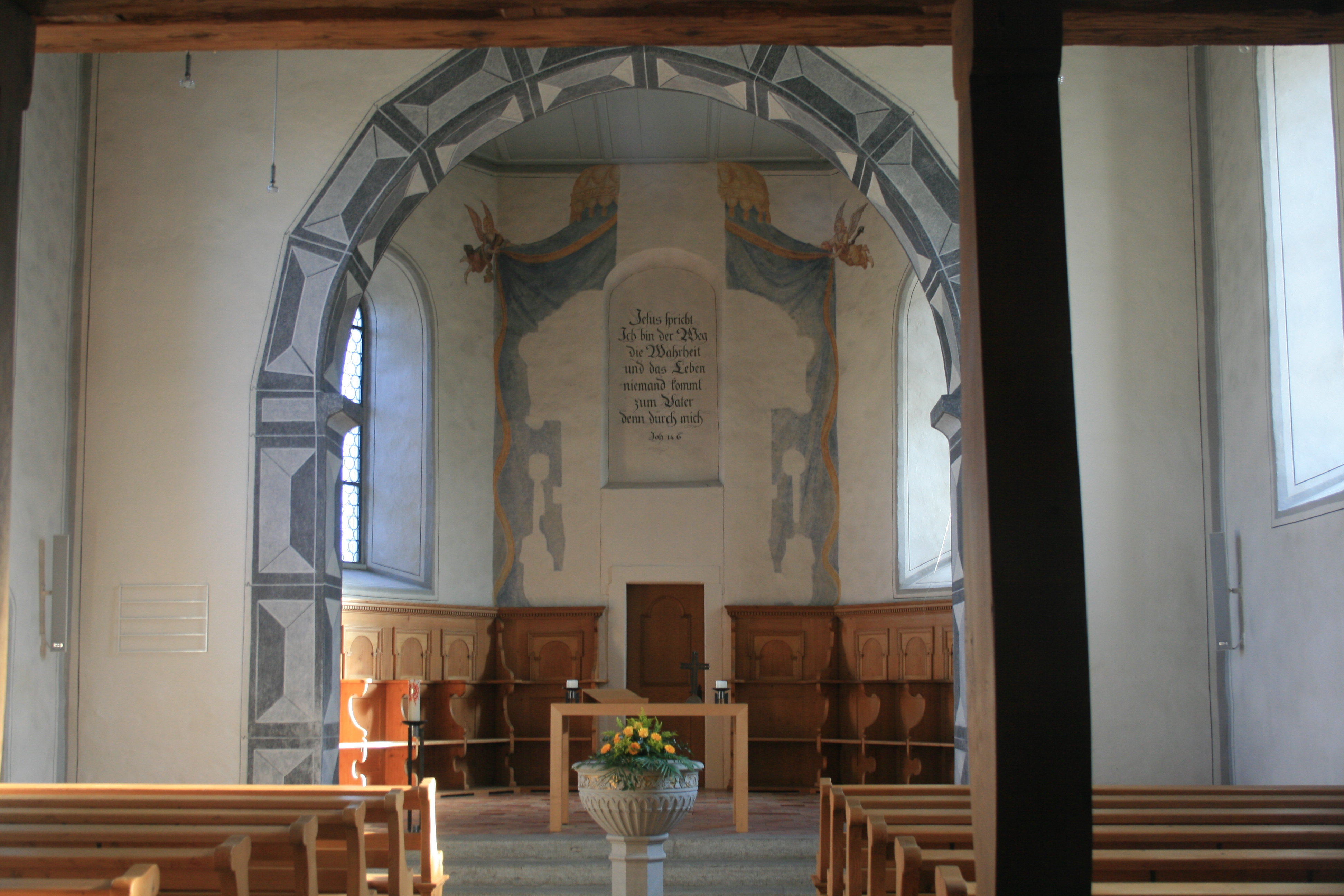 Inside of ref. church of Spreitenbach, Switzerland